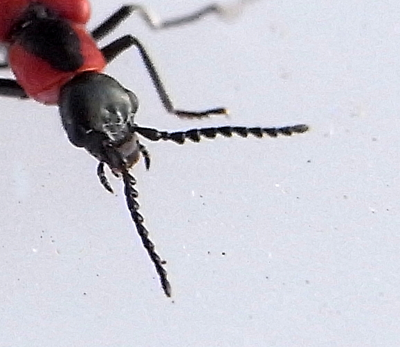 head of Anthocomus rufusRicoh R8